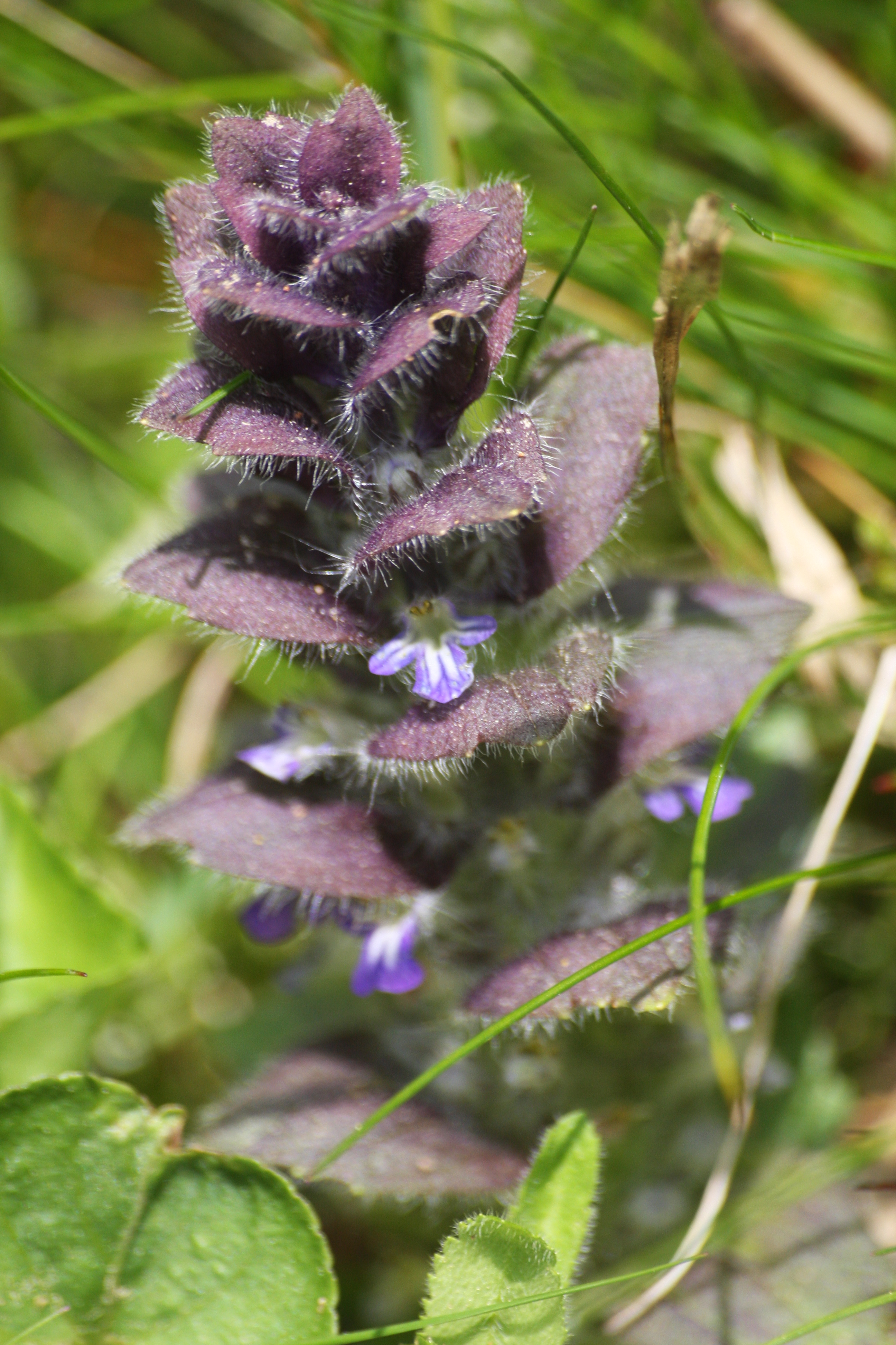 Ajuga pyramidalis at Bogstad manor, Oslo, Norway.